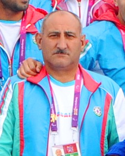 Ibrahim Ibrahimov at the 2012 Summer Paralympics